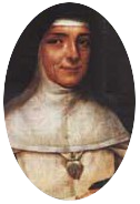 Catholic nun Mary Euphrasia Pelletier, 19-th century